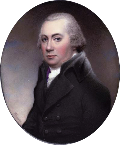 Henry Hawkins Tremayne (1766-1829), in black coat and waistcoat with aubergine lining, white cravat, powdered hair signed 'HBone' (lower left) and signed, dated and fully inscribed on the counter-enamel 'Henry Bone pinx. April 1795 Rev. d H.H. Tremayne of Heligan Cornwall' and signed on the backing paper 'HBone Hanover S t. Hanover Sq u' enamel on copper oval,95 mm. Henry Hawkins Tremayne was a curate in Lostwithiel, Cornwall, and unexpectedly inherited the estate of Heligan.